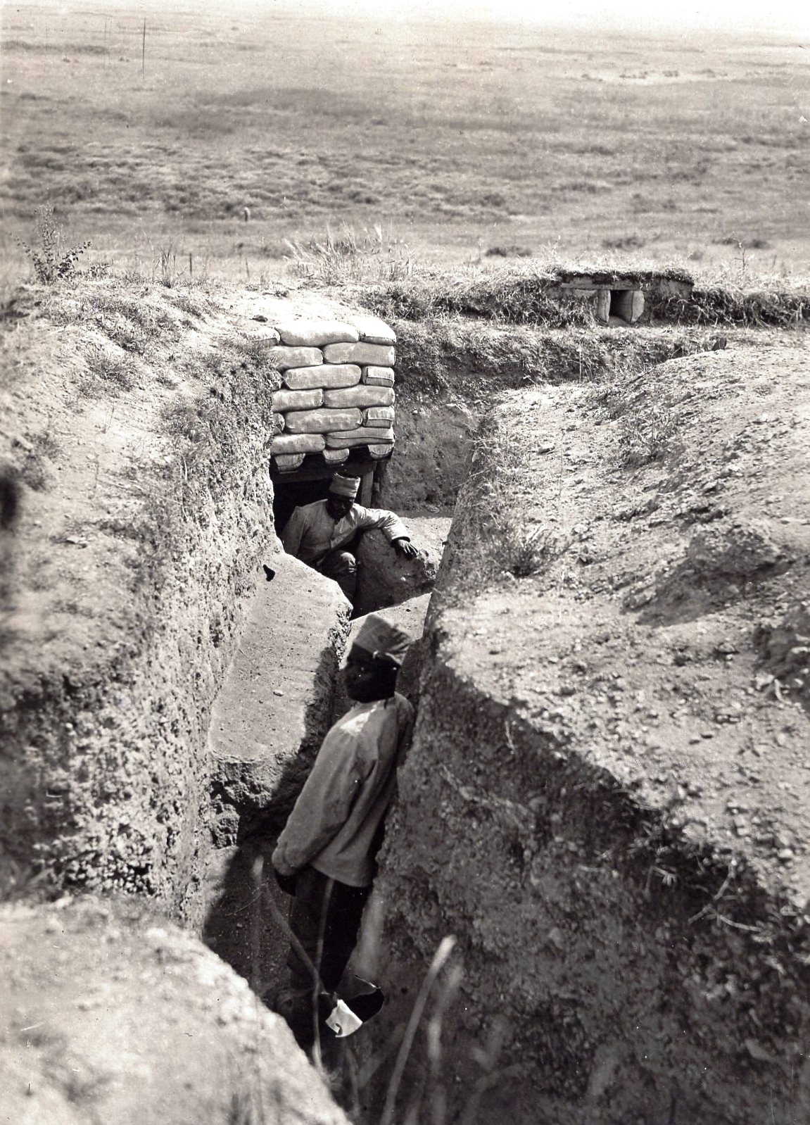 Trenches, Macedonian Front, World War I This media file is produced by Wikipedian in Residence in Category:Wikipedian in Residence at DARM in 2016.